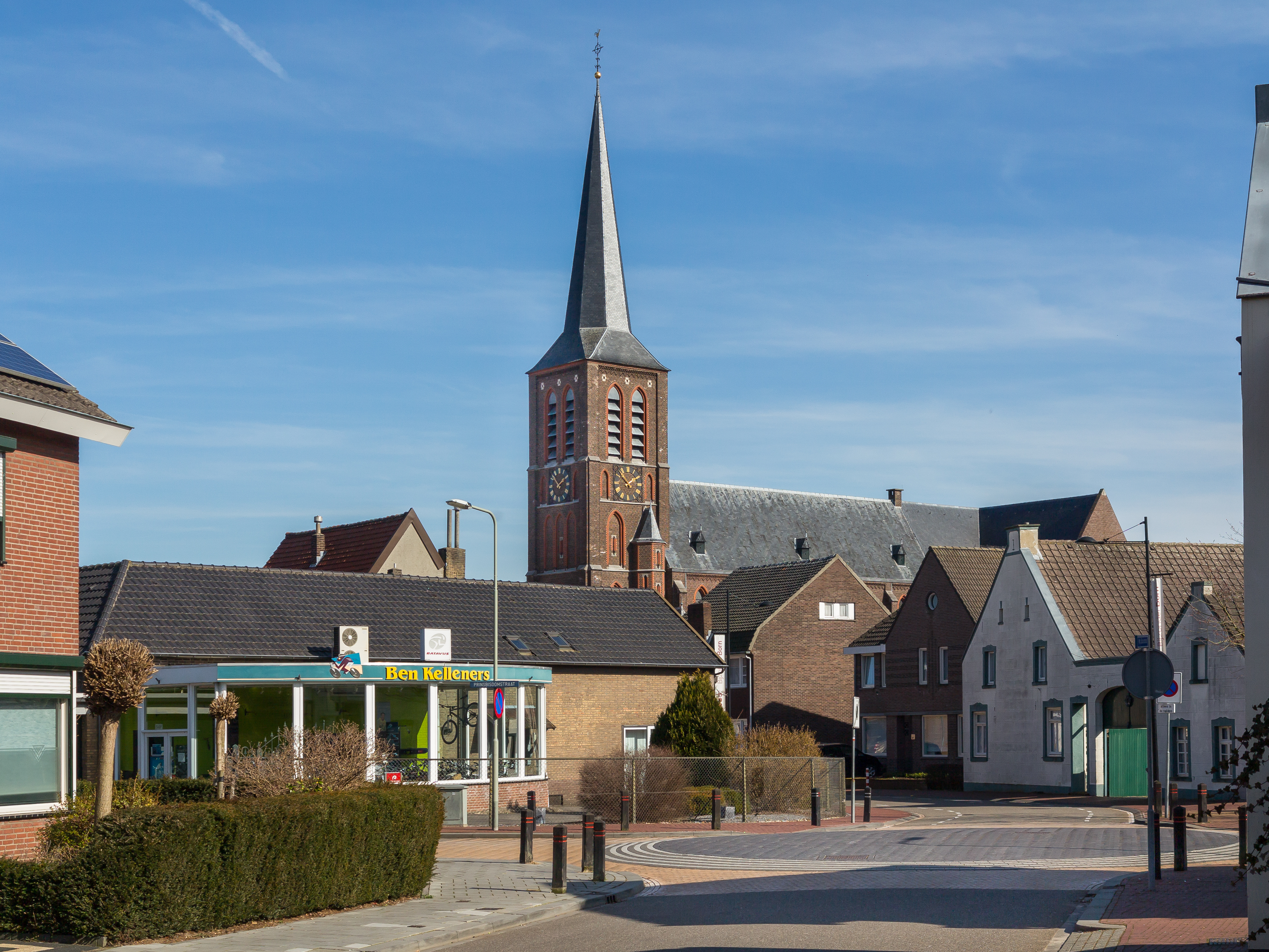 Born, church: de Rooms Katholieke Kerk Sint Martinus